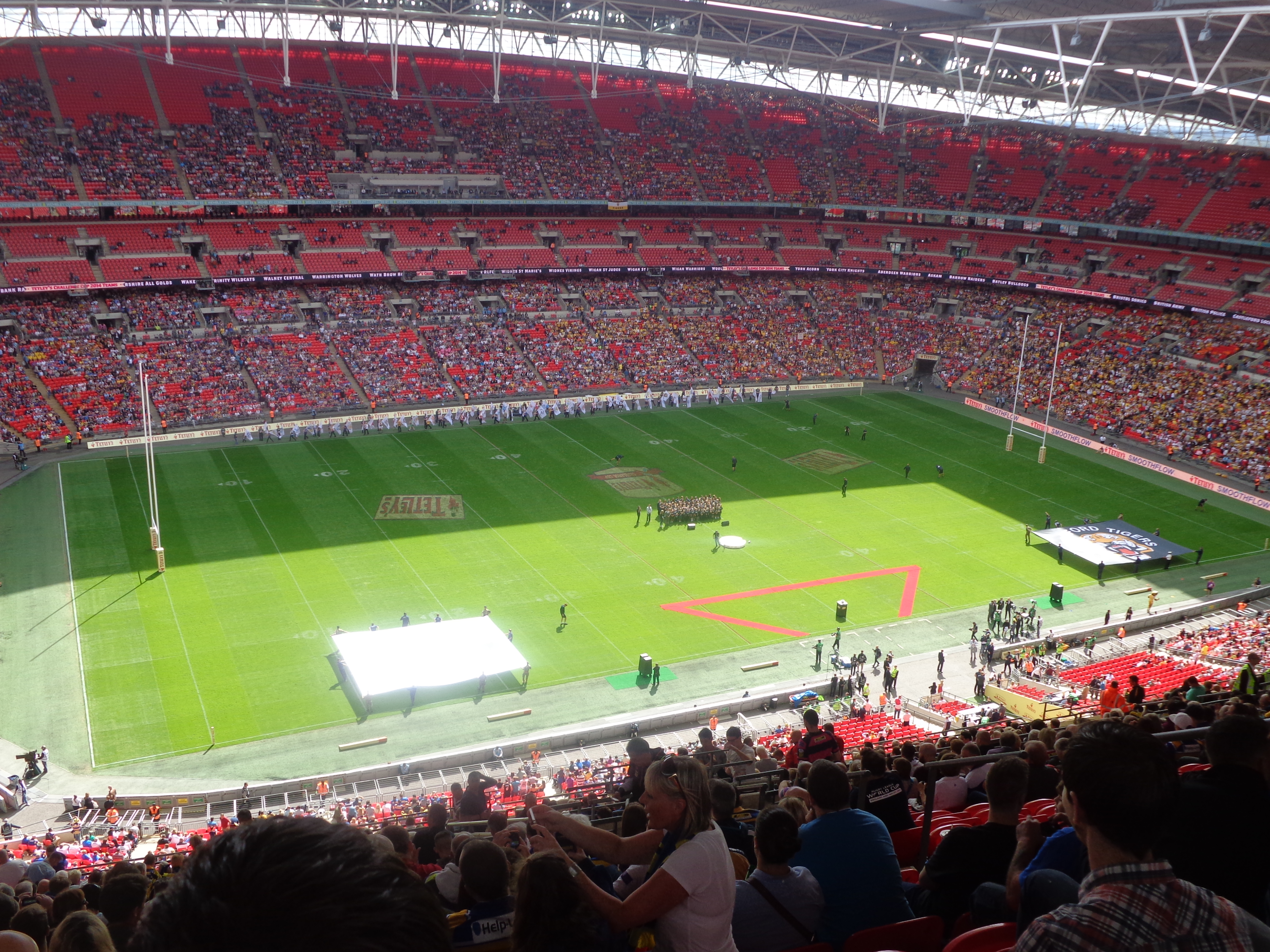 Wembley Stadium during the 2014 Challenge Cup Final between Leeds Rhinos and Castleford Tigers. The match was won 23-10 by the Leeds Rhinos with Ryan Hall taking the Lance Todd Trophy and was kicked off on 3pm on Saturday the 23rd of August 2014.